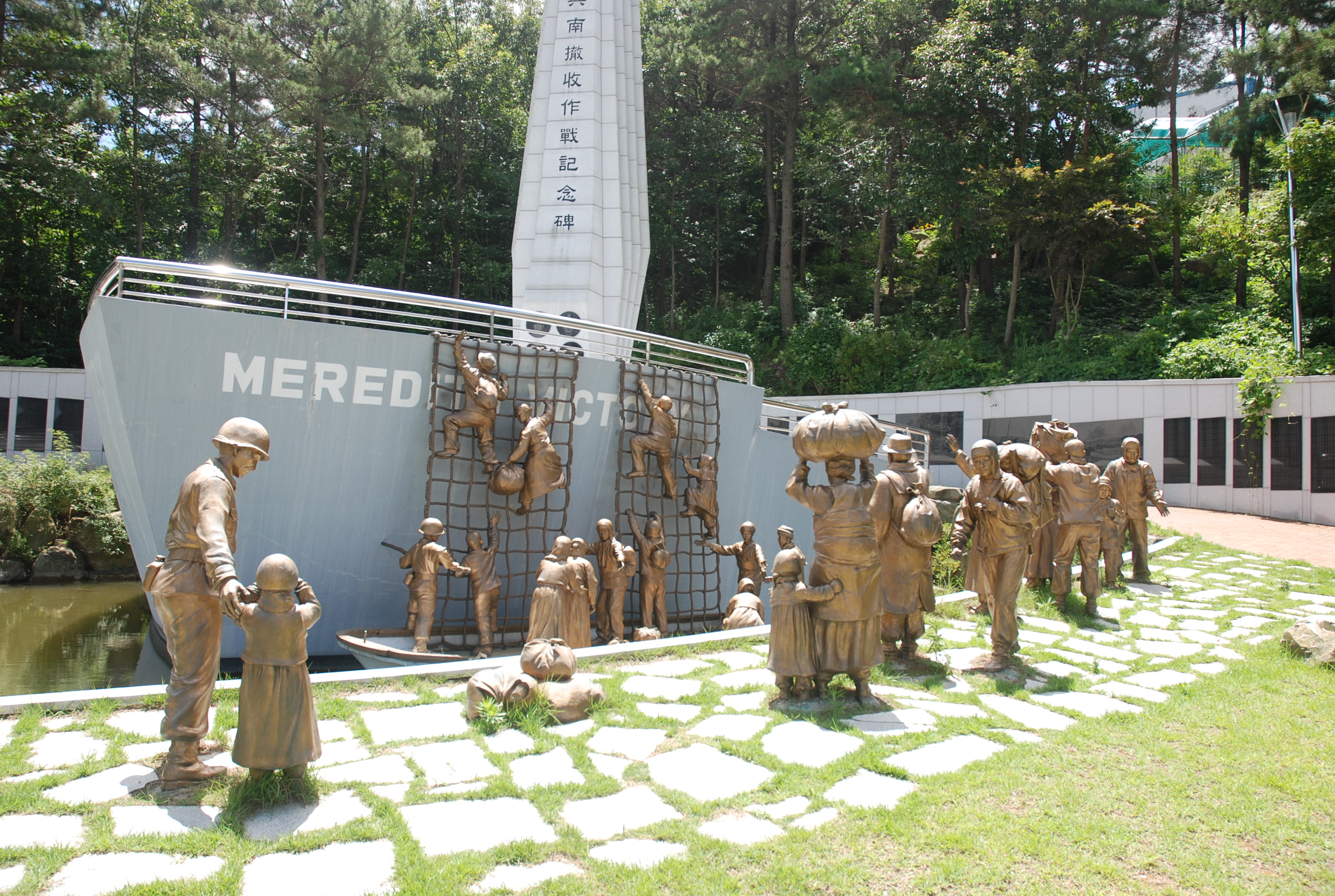 Geoje HuengNam Retreat Memorial Tower and the model of SS Meredith Victory